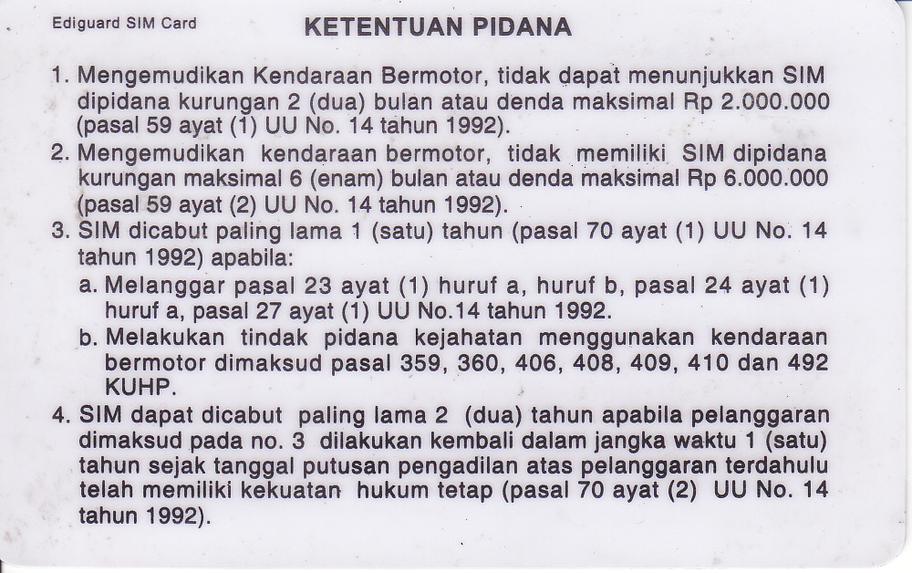 back Indonesian Driving License